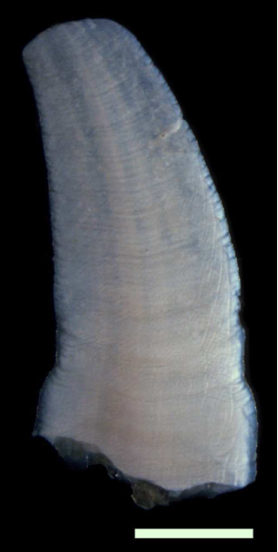 Photo of outer surface of the sclerite of an adult individual of Chrysomallon squamiferum. The scale bar is 1 mm.